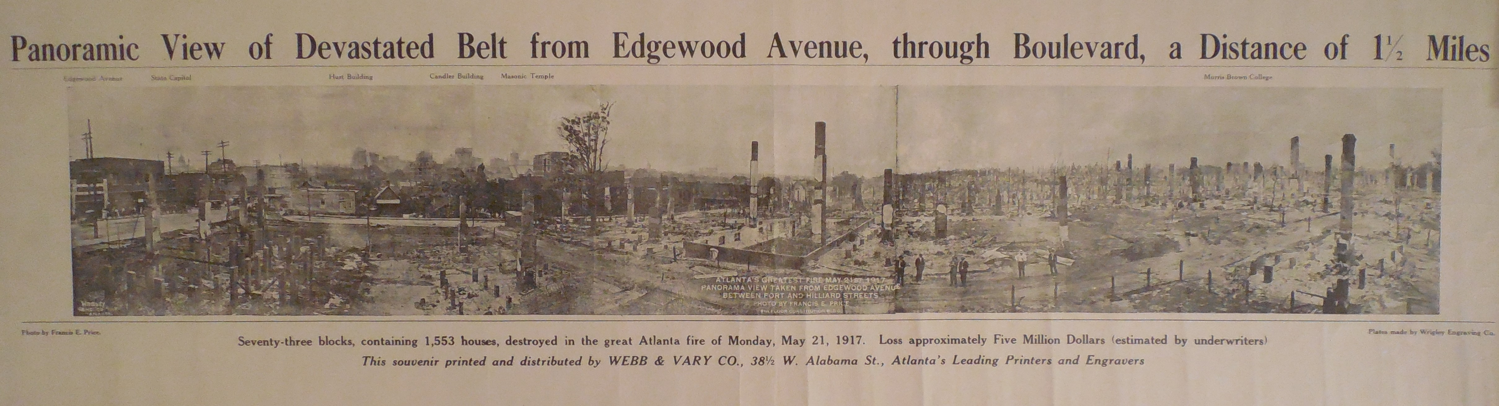 Panoramic photograph of portion of Atlanta, GA, destroyed by fire at May 21, 1917